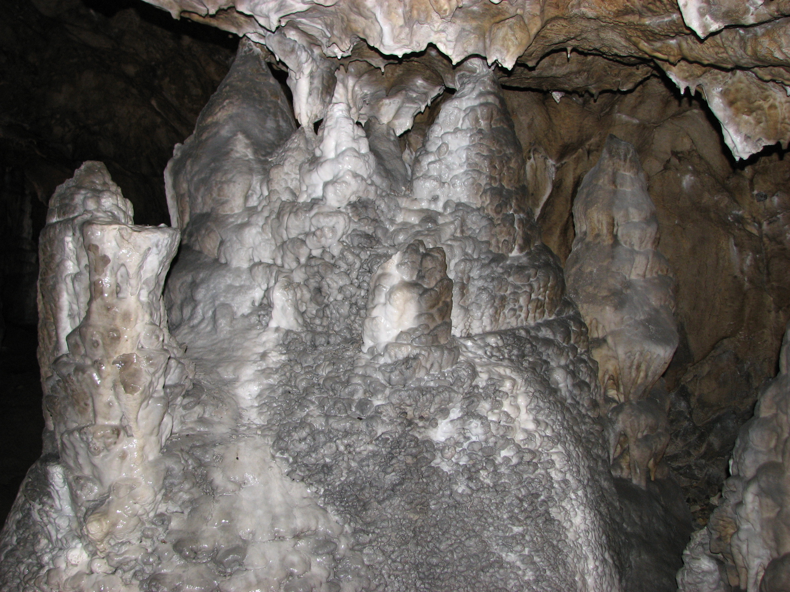 Women's Cave, in Gorj County, Romania